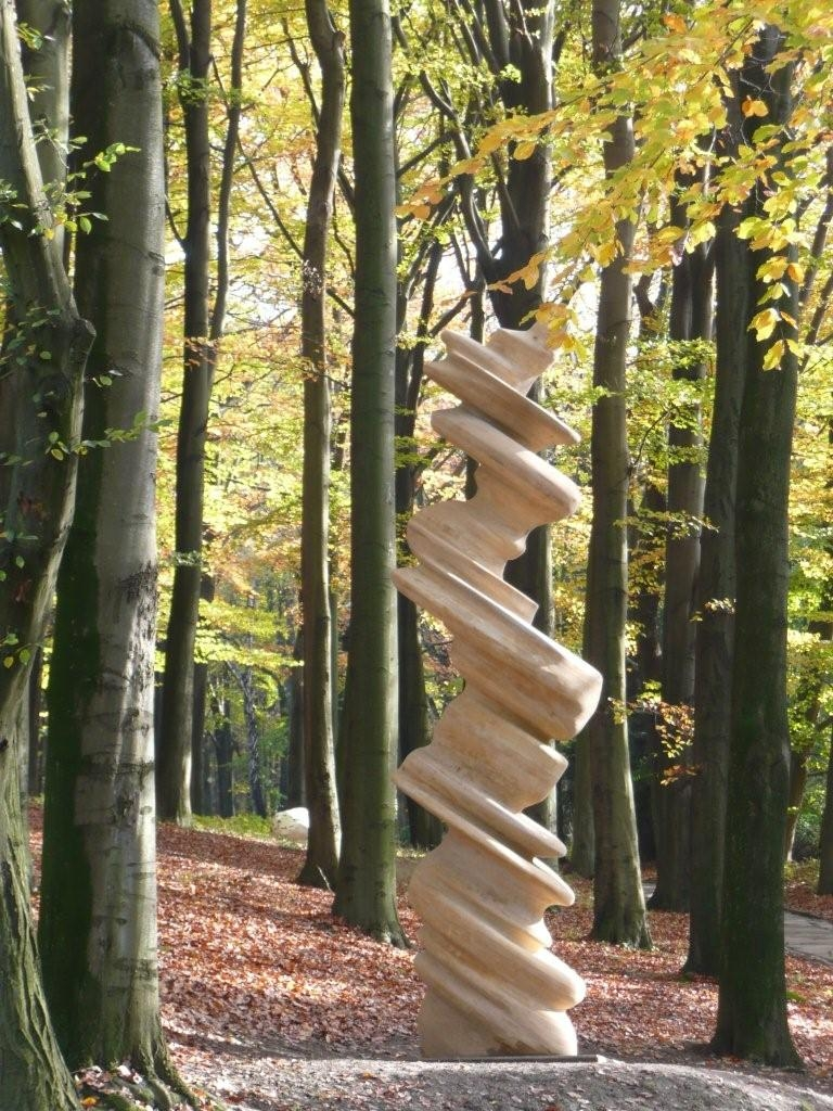 Sculpture Dancing Column (2008) by Tony Cragg in Skulpturenpark Waldfrieden in Wuppertal/Germany